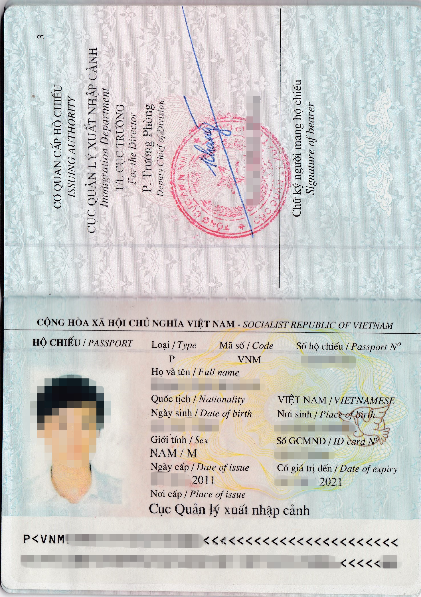 Second and third page of a Vietnamese ordinary passport. The second page contains indentity information.